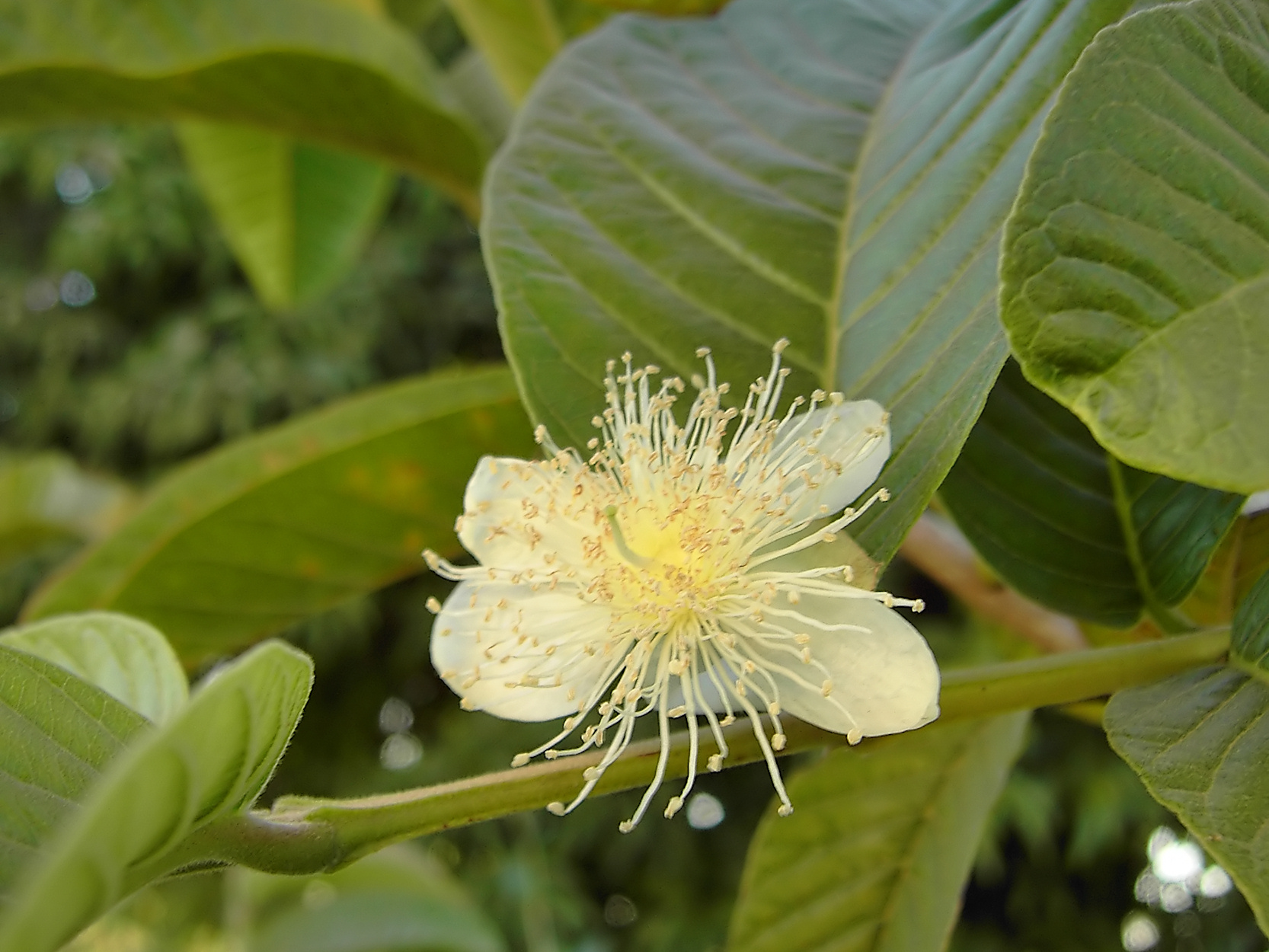 Guava flower in Kabwe, Zambia